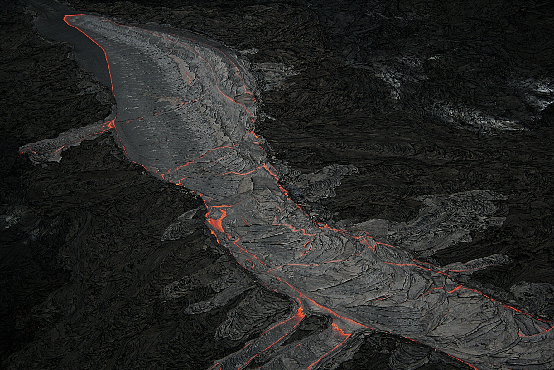 Pāhoehoe Lava flows in the open lava channel (not in a Lava tube) with overflows at both sides. The image was taken at The Big Island of Hawaii. The lava flow is due to July 21, 2007 fissure eruption at Kīlauea volcano. The channel is crusting over with a v-shaped opening pointing upstream. The crusting-over process usually starts at the upstream end, the crust grows downstream for a considerable distance, then the crust founders and sinks opening the channel to crusting over again. The main channel and overflows show perched nature of this kind of lava channels. The picture was taken from a helicopter. The link to the map of the flow by USGS.